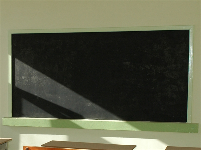 The newly-built classrooms for Sir Asyab Girls High School in Kabul received new desks this week as the school prepares for a grand opening ceremony early next month. Previously, the high school had three buildings equipped with splintered and broken desks. New desks were also provided for the older buildings as part of the project by the U.S. Army Corps of Engineers funded by the Commander’s Emergency Response Program. Original plans for the new, two-story building requested by the Afghan Ministry of Education were scaled back to one story and designed with a safety corridor that will provide the more than 3,600 Afghan students with a safe escape should the building experience an earthquake or fire. (Photo ID: 358835)